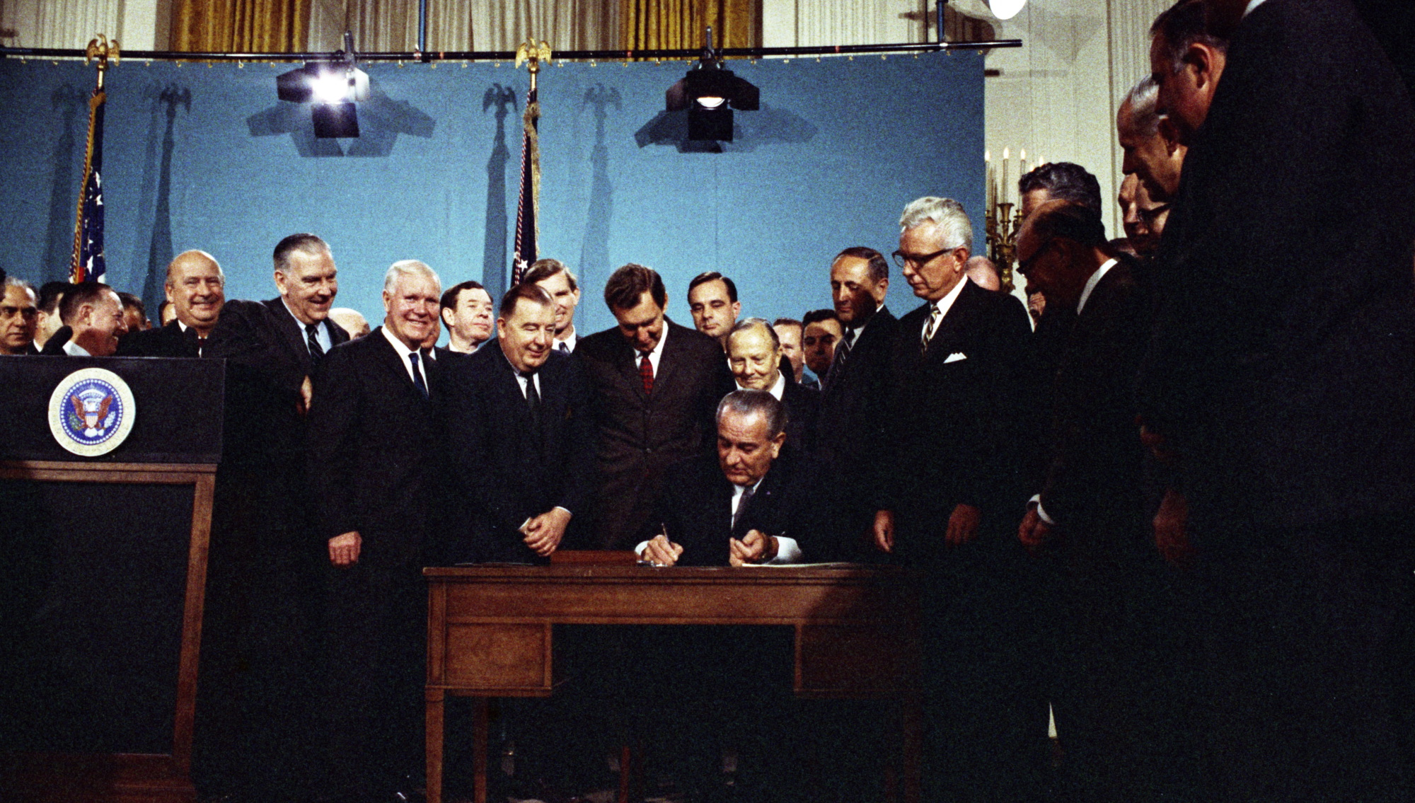 President Lyndon B. Johnson signing the 1967 Clean Air Act in the East Room of the White House.